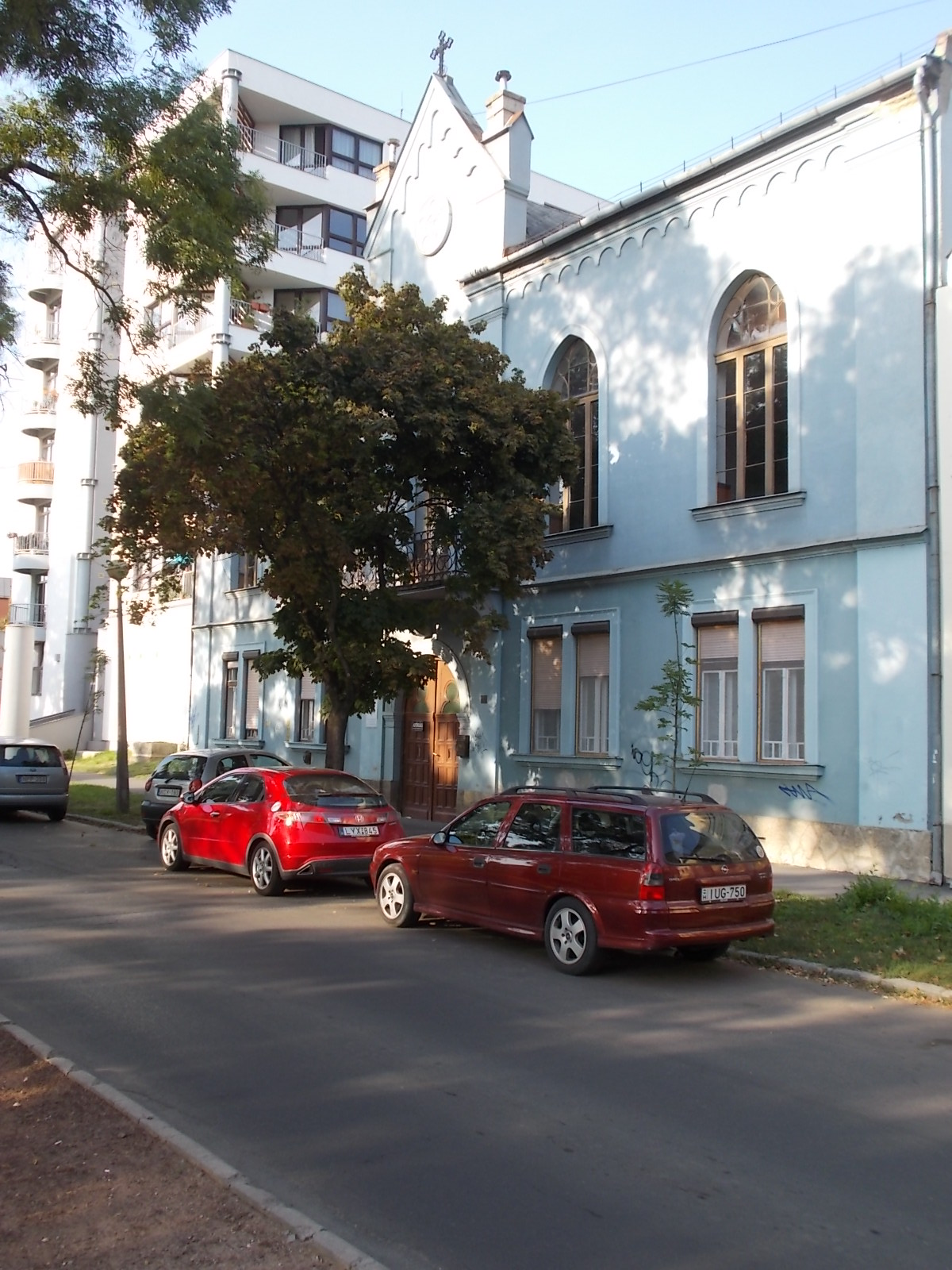 Part of 'Benczúr Square east and west side' monument complex - 10 Bessenyei Square, Nyíregyháza, Szabolcs-Szatmár-Bereg County, Hungary.